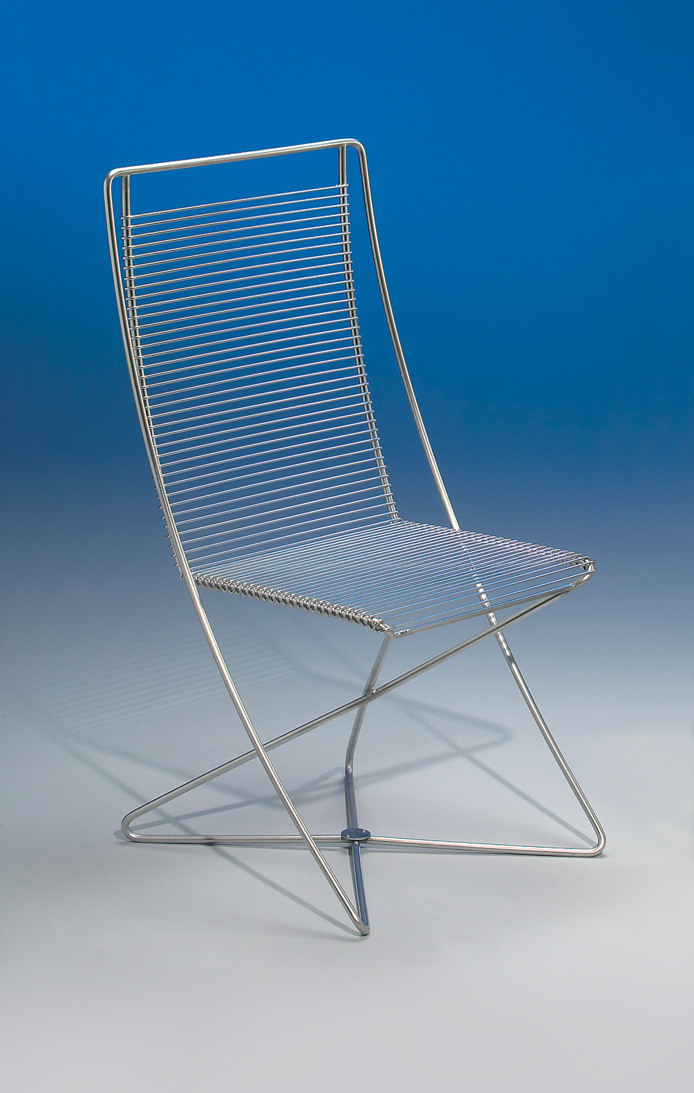 Studio photography of a Kreuzschwinger(R) Chair